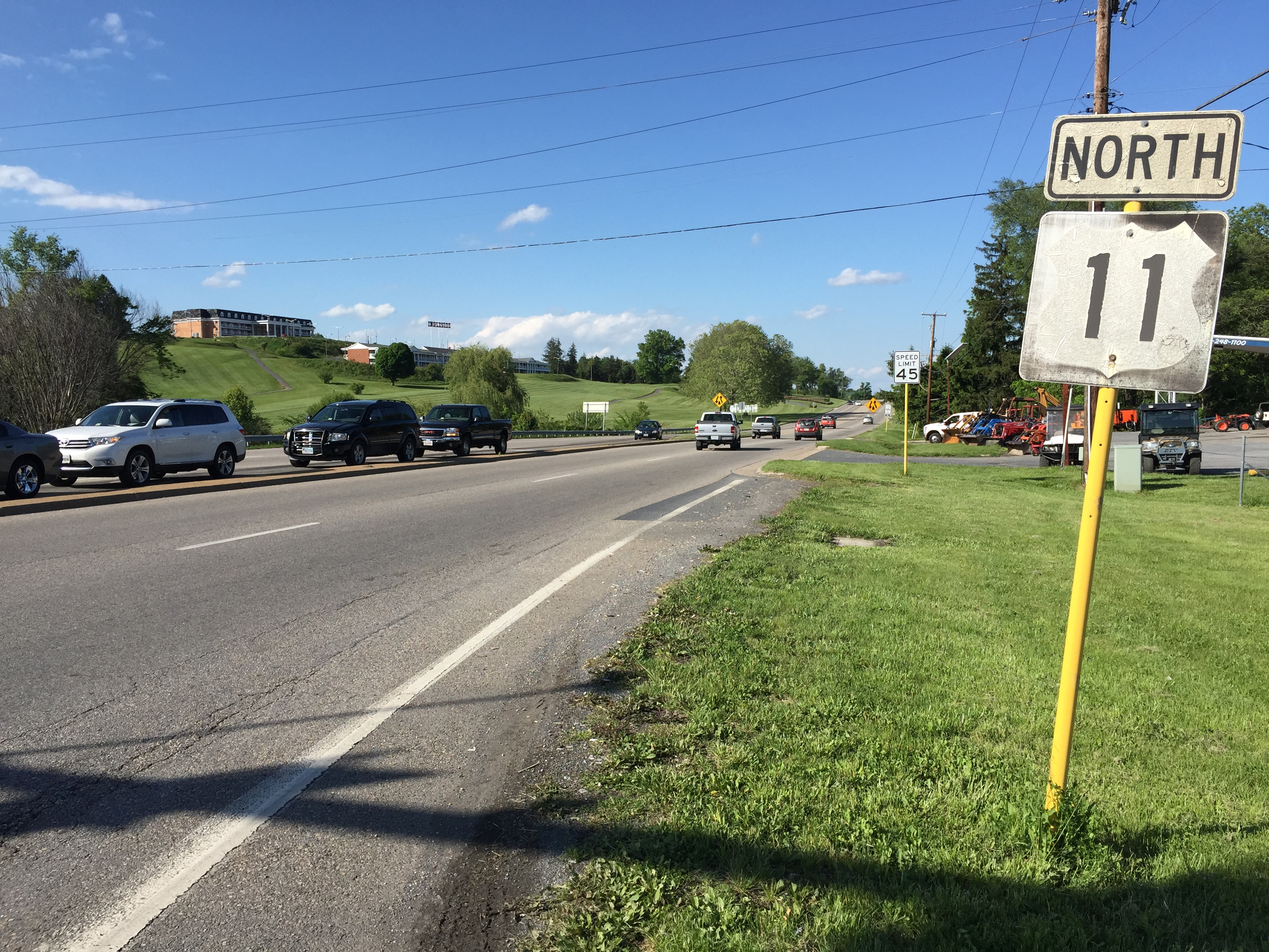 View north along Commerce Road (U.S. Route 11) just north of Woodrow Wilson Parkway (Virginia State Route 262) in Staunton, Virginia